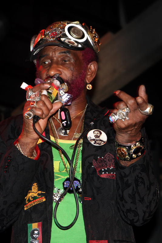 The Mighty Upsetter dub show, Flog, Firenze, Italy 20/03/2009